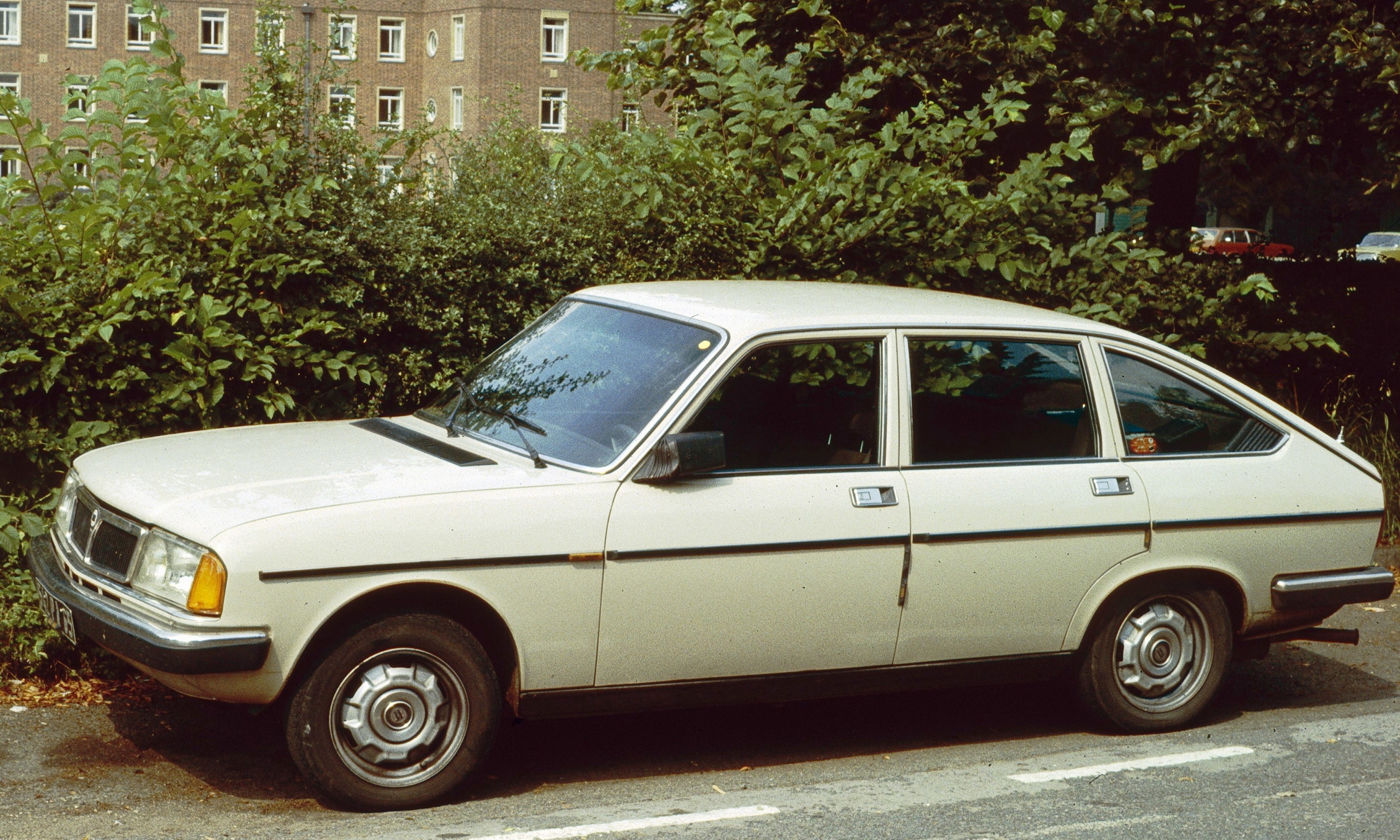 Lancia beta post face lift in West Road, Cambridge